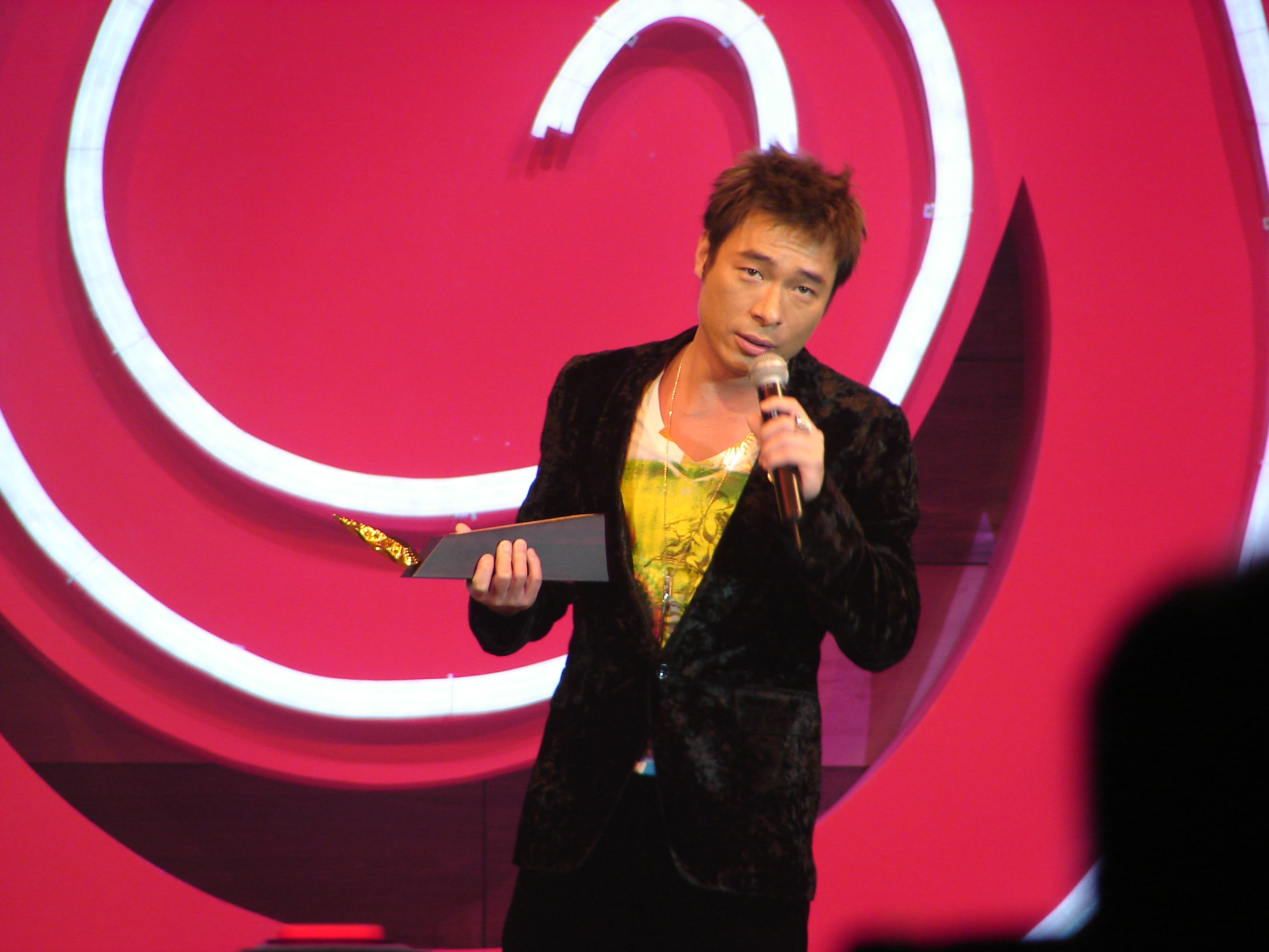 Andy Hui 許志安@叱o宅903 - 2006 (01 January 2007)